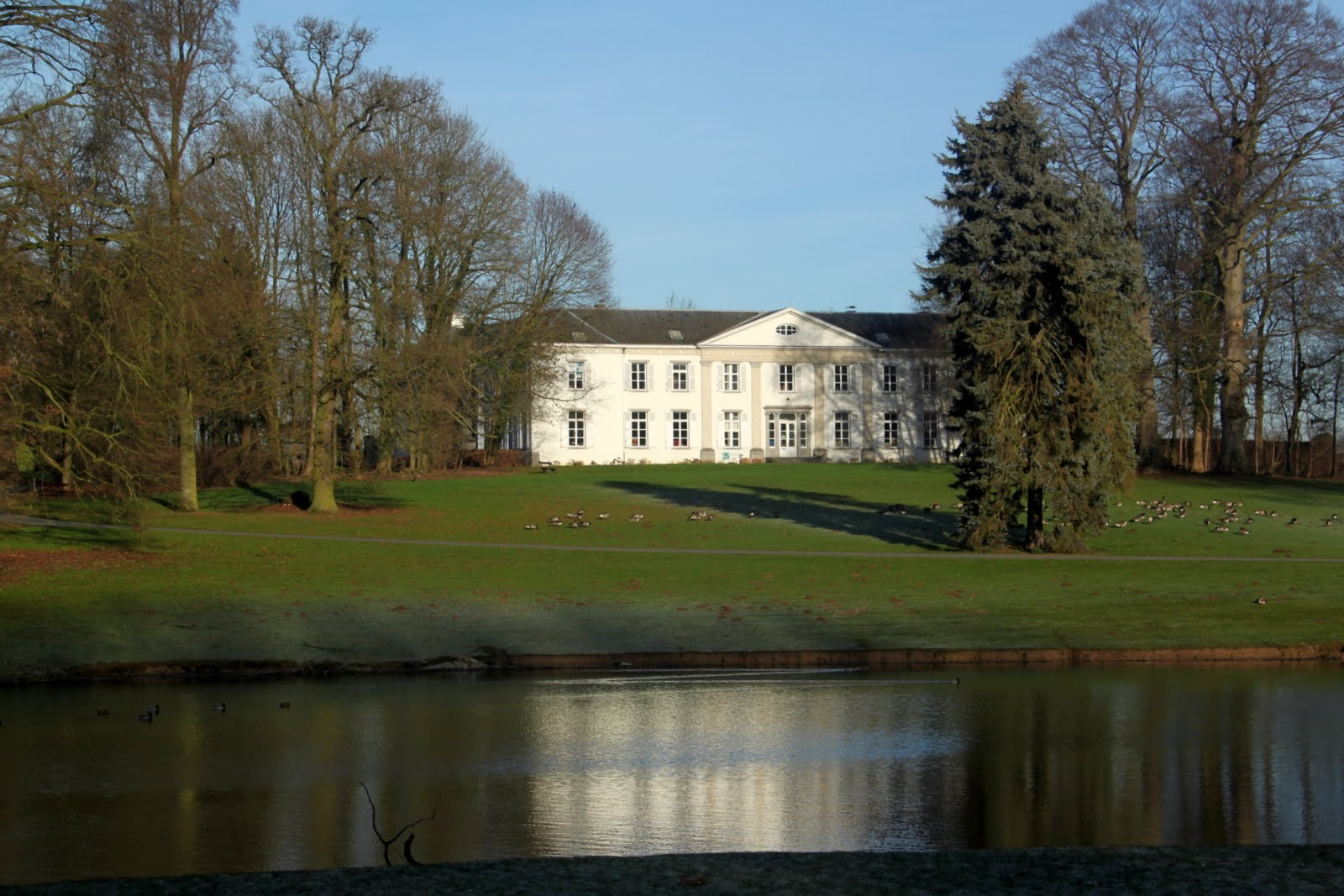 Kasteel Ter Rijst